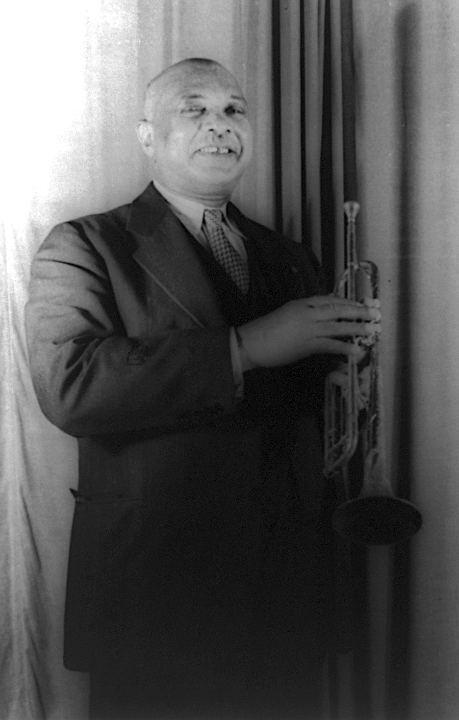 W. C. Handy